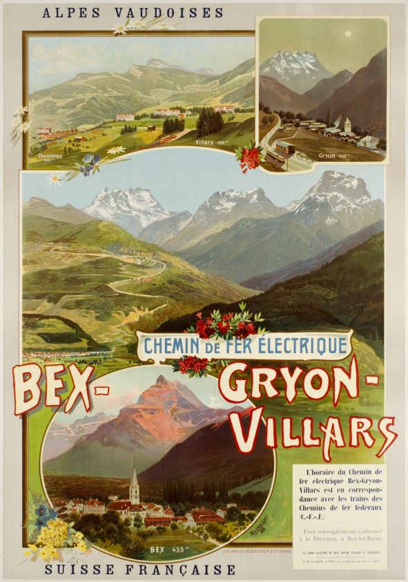 Tourism advertisement poster: Bex Gryon Villars